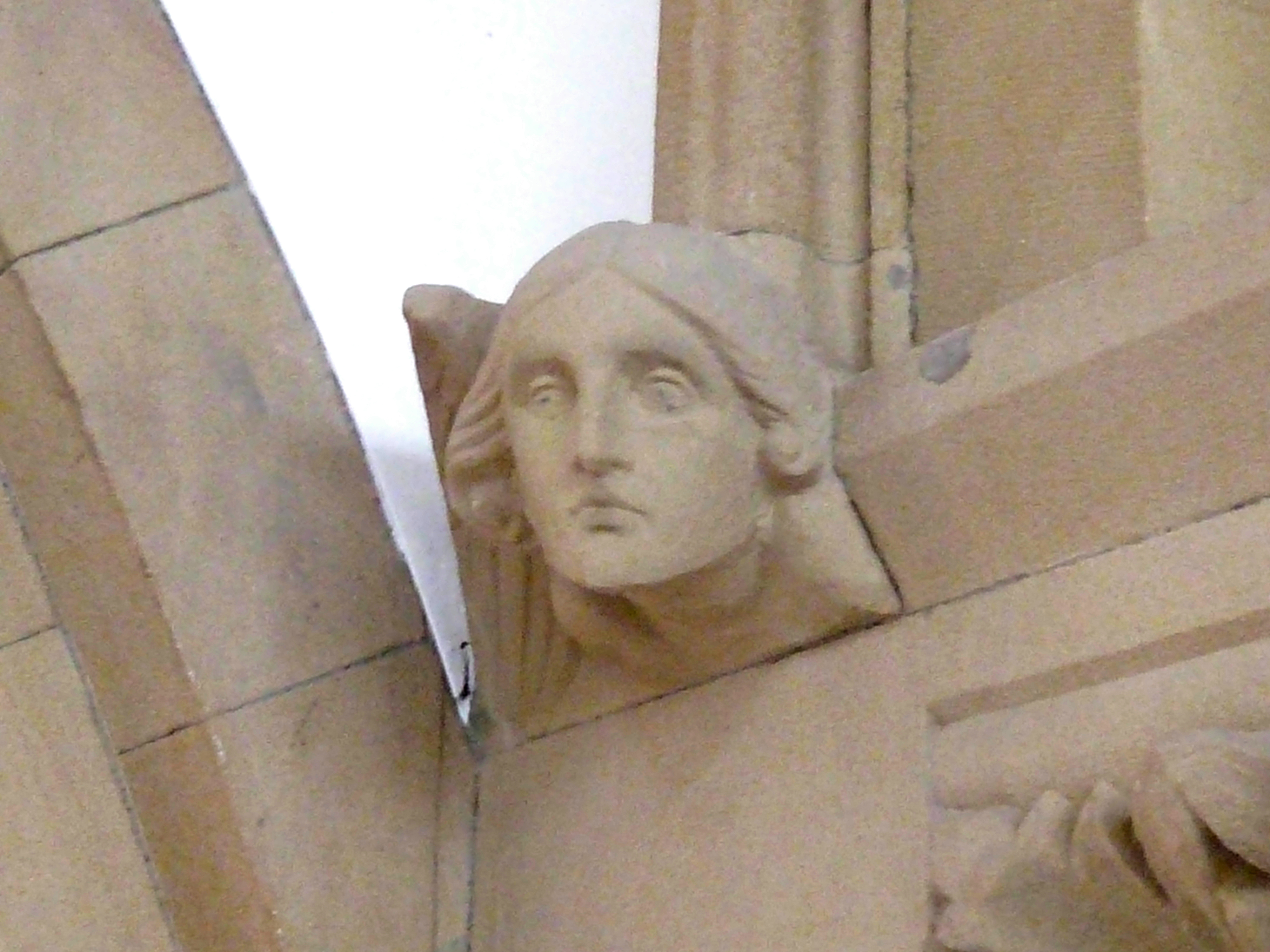 Interior of former church of St Mark, Old Leeds Road, Huddersfield, West Yorkshire, England. Built 1887, designed by architect William Swinden Barber (1832-1908). The building was deconsecrated and has been converted into an office block, but many interior features are still visible. Showing sculpture on north leg of chancel arch, viewed from south-west. An angel and trilobe fig leaves, representing the Trinity. All four angels are slightly different from each other. The trilobe fig leaves do not bear fruit on the north leg of the arch, where the angels are masculine.